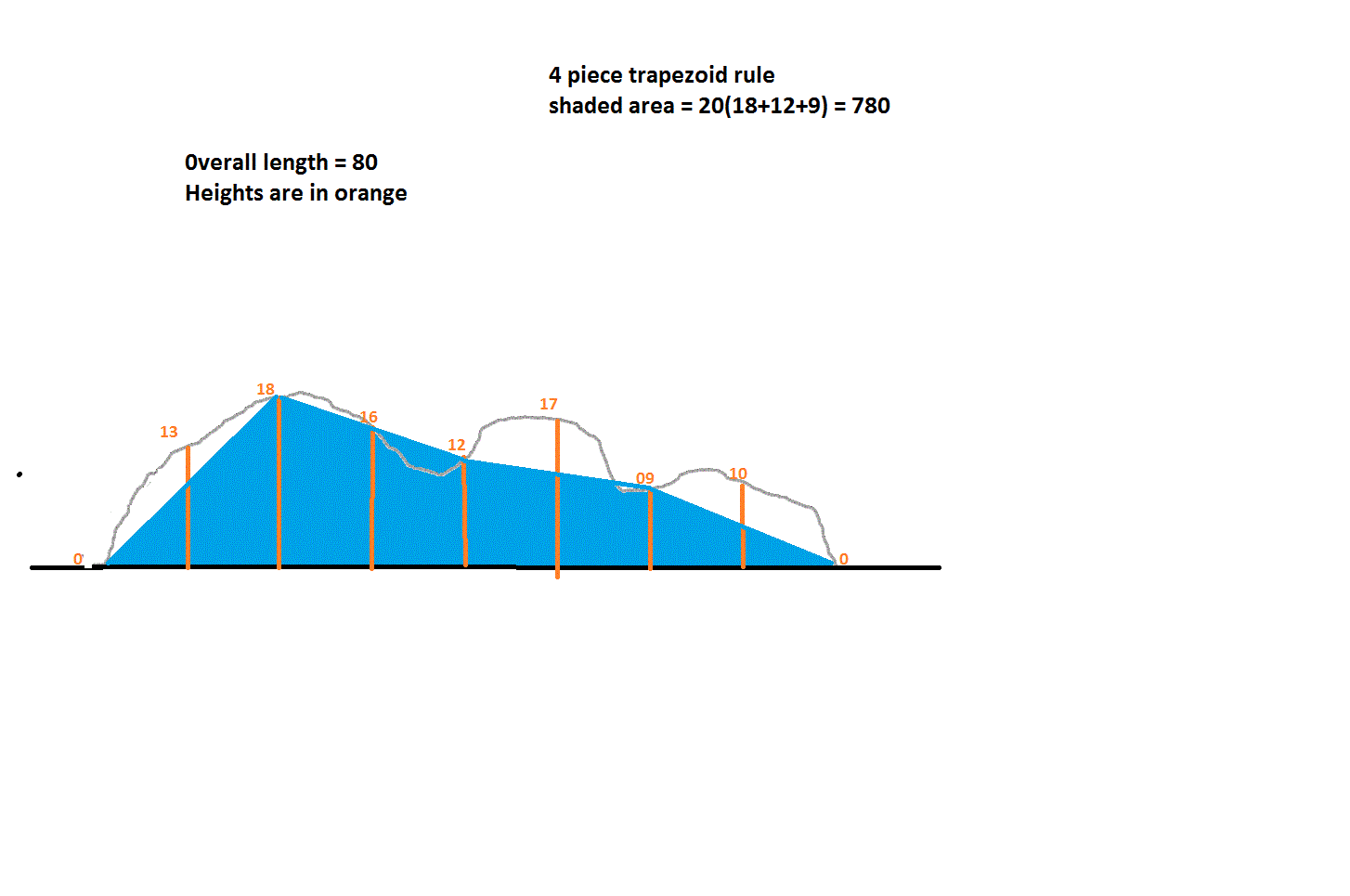 File 3 of 4 to be used in the article on the Romberg method